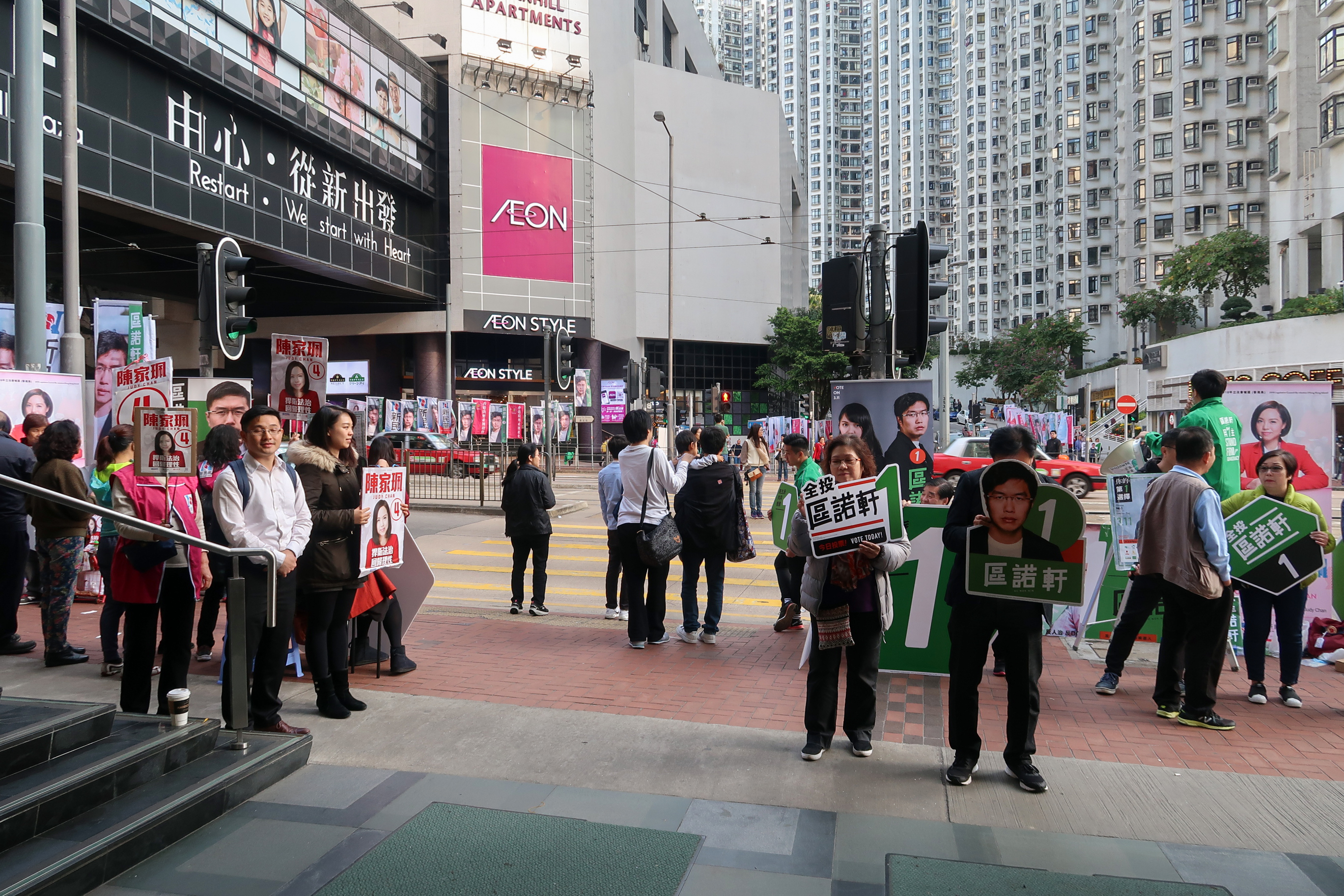 Hong Kong by-election 2018 in Taikoo